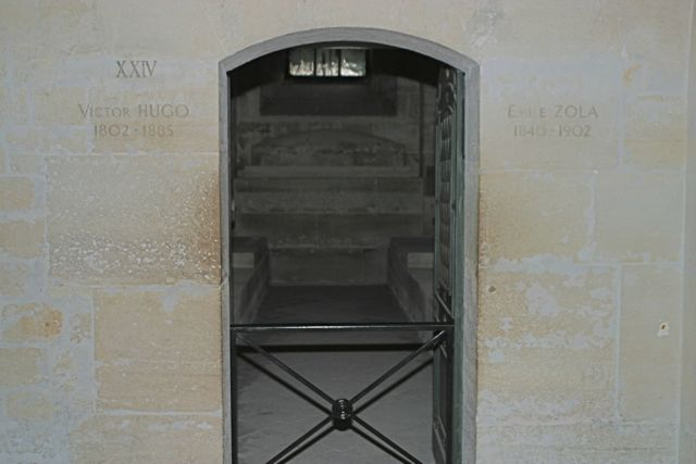 A picture of the crypt containing the tombs of Emile Zola and Victor Hugo.